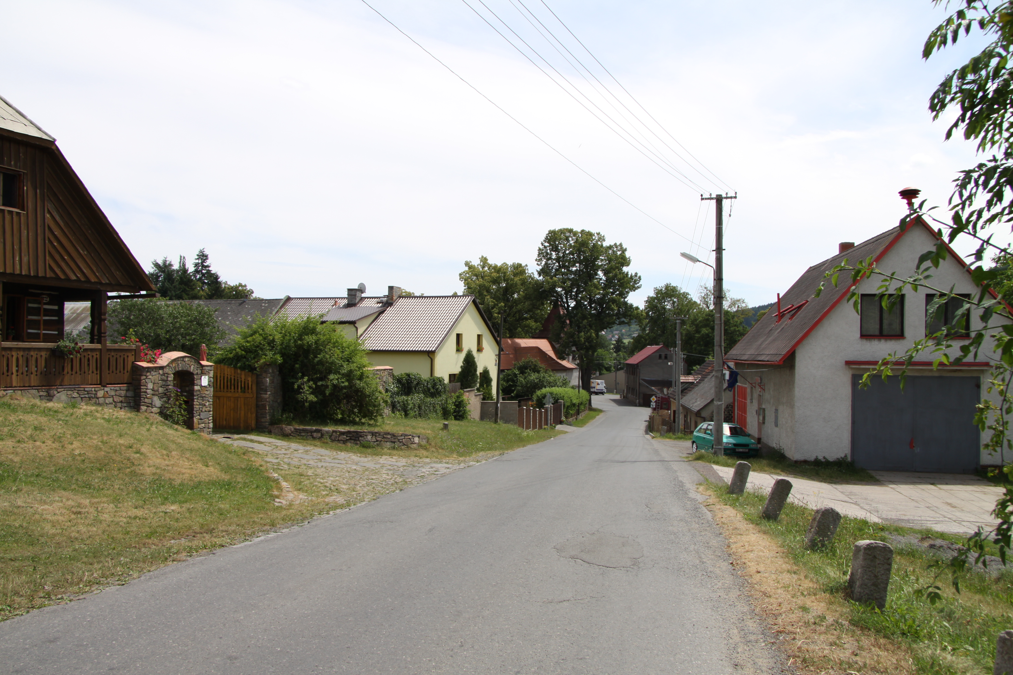 Obecnice village in Příbram District, Czech Republic.